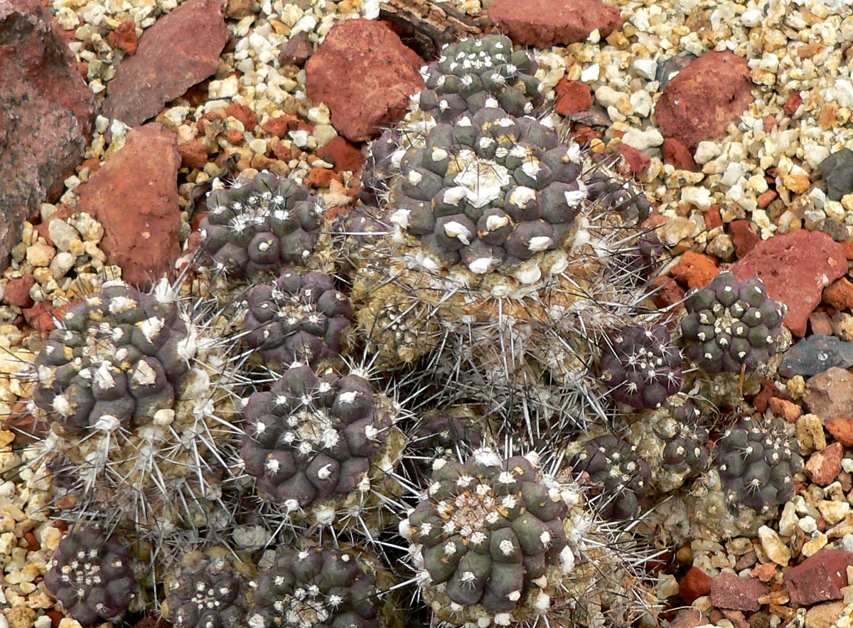 Photo of Copiapoa humilis at the University of California Botanical Garden